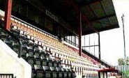 The Tetley's Stadium